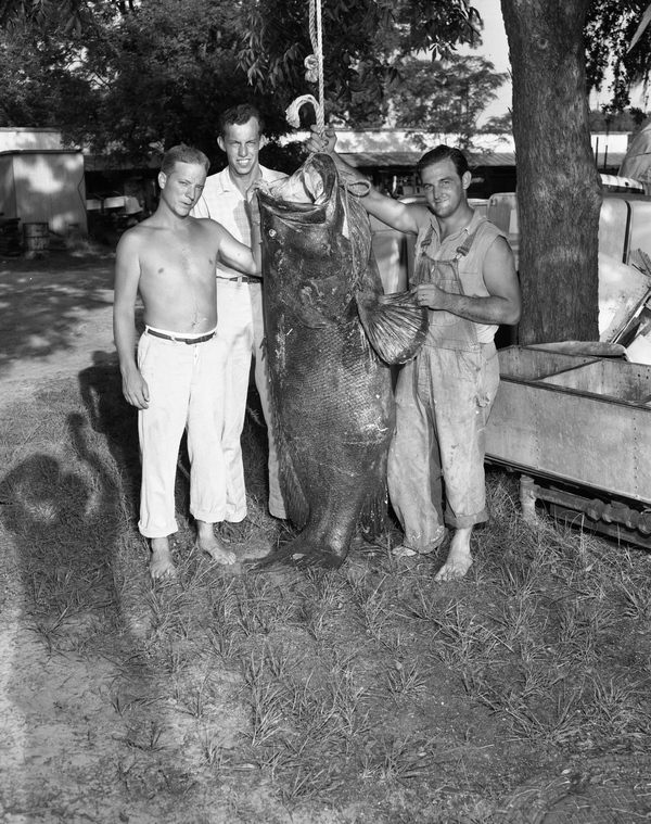 Persistent URL: Local call number: TD00132 Title: Skin divers with a 7-foot, 500 pound goliath grouper speared off Rock Island, Florida Date: May 12, 1957 Physical descrip: 1 photonegative - b&w - 4 x 5 in. Series Title: Tallahassee Democrat Collection Repository: State Library and Archives of Florida 500 S. Bronough St., Tallahassee, FL, 32399-0250 USA, Contact: 850.245.6700